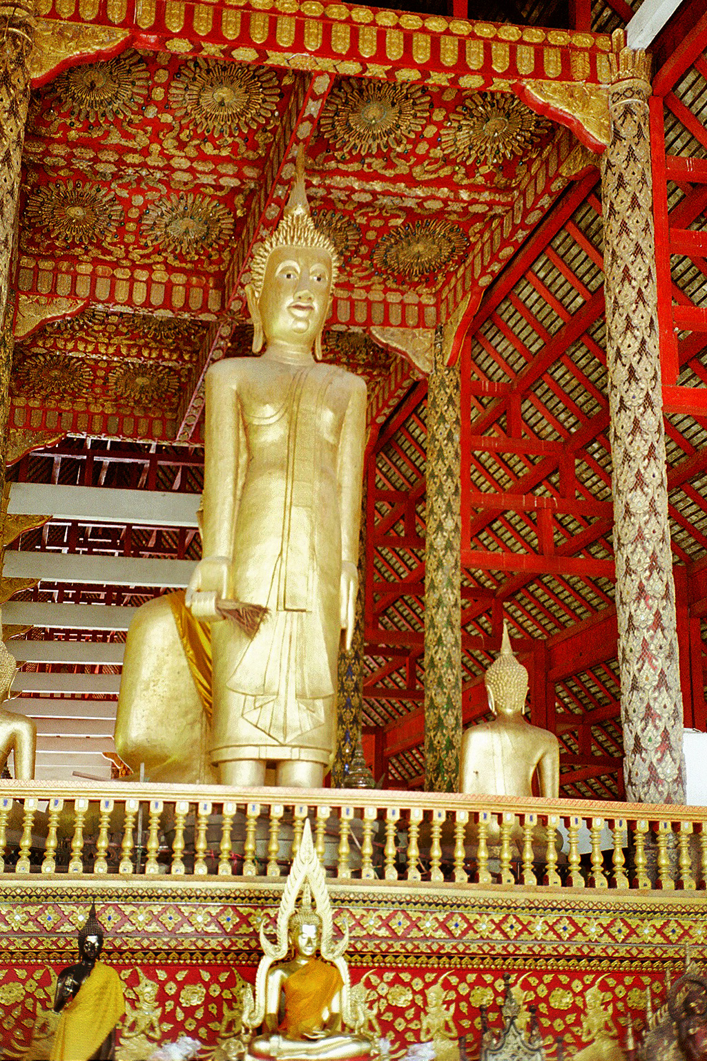 Phra Yuen (Standing Buddha) in Sala Kan Parian of Wat Suan Dok, Chiang Mai, northern Thailand